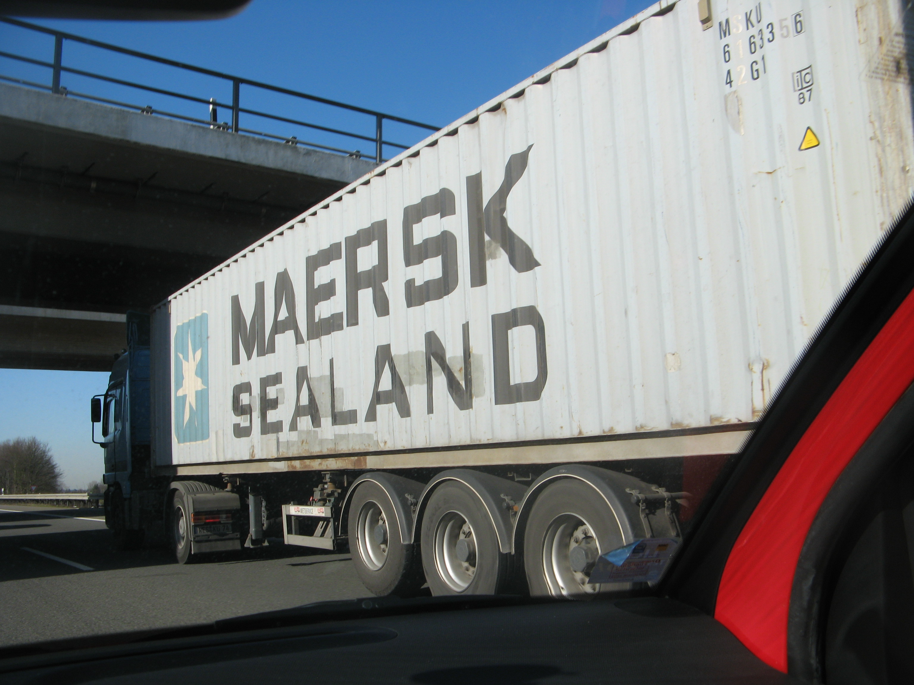 Maersk Sealand container on truck on the German autobahn close to Dortmund.